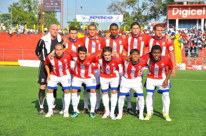 Formation used against st martin in a soccer game.